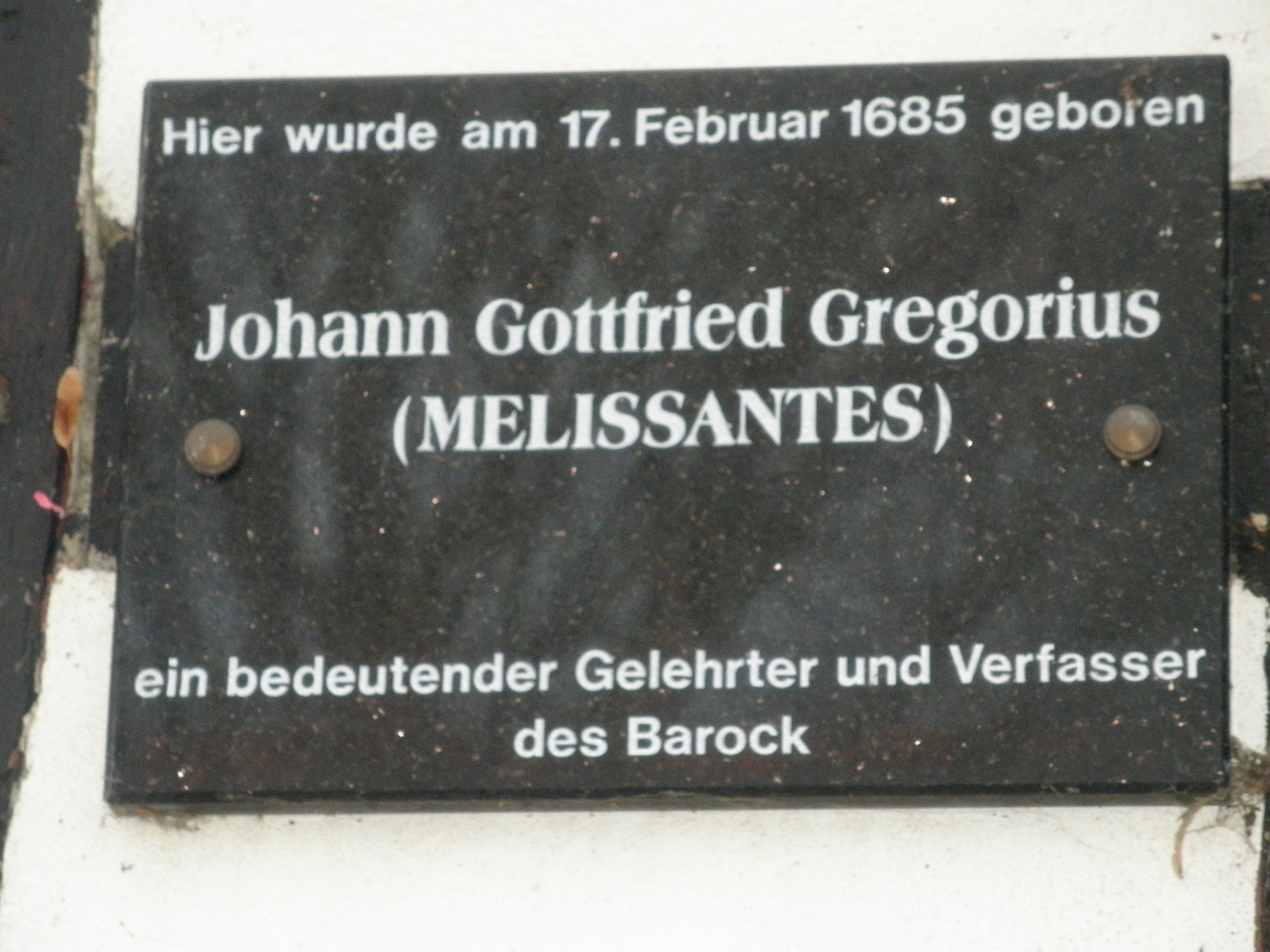 Melissantes born in Toba (Helbedündorf) in Thuringia